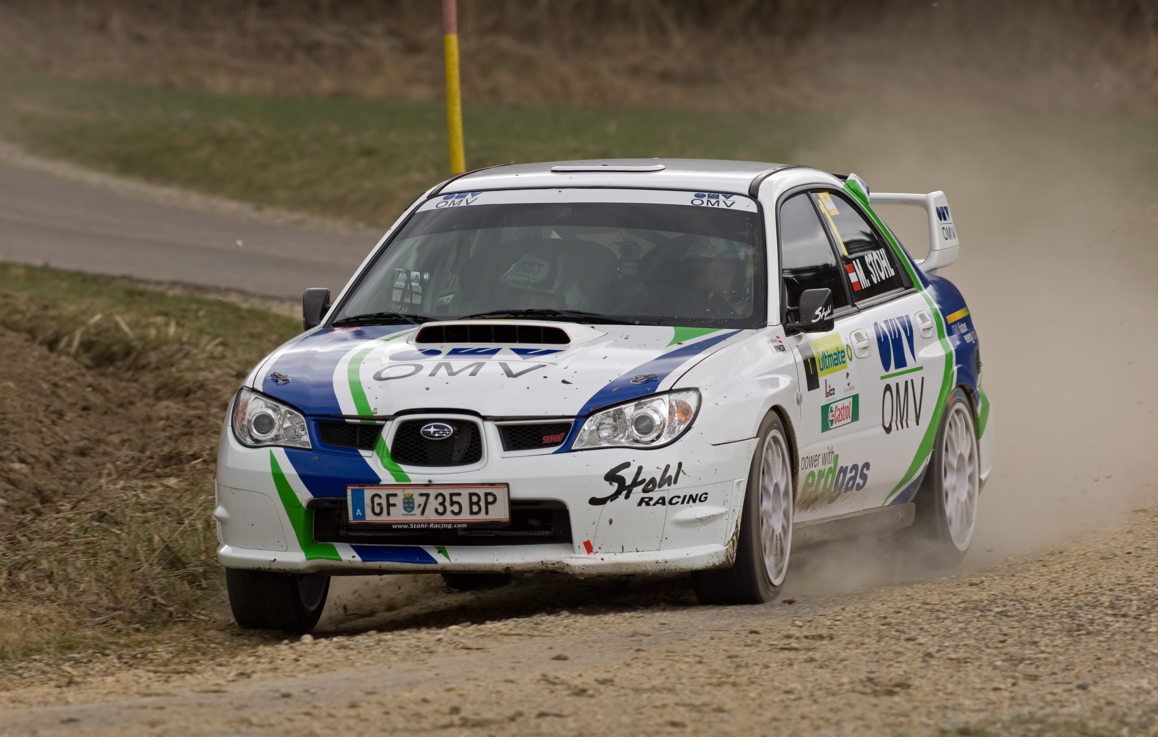 Description: Manfred Stohl at Lavanttal Rallye 2009 with a SUBARU Impreza STI CNG Location: (near Wolfsberg, Austria) Camera: Nikon D2X Lens: AF-S VR Nikkor 300 mm 1:2,8 IF-ED f/5 Film / Speed: ISO 200 Comment